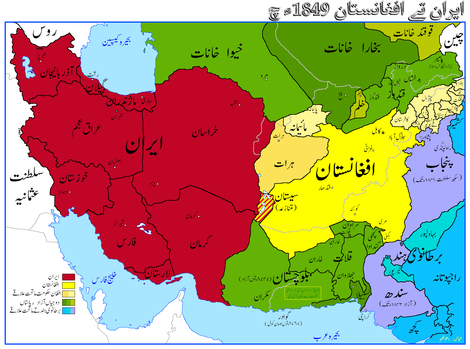 A map of Iran , Afganstan ,Punjab , sindh , Balochistan , Khiva & Bukhara Khanate (1849) in western punjabi (Punjabi Shahmukhi).